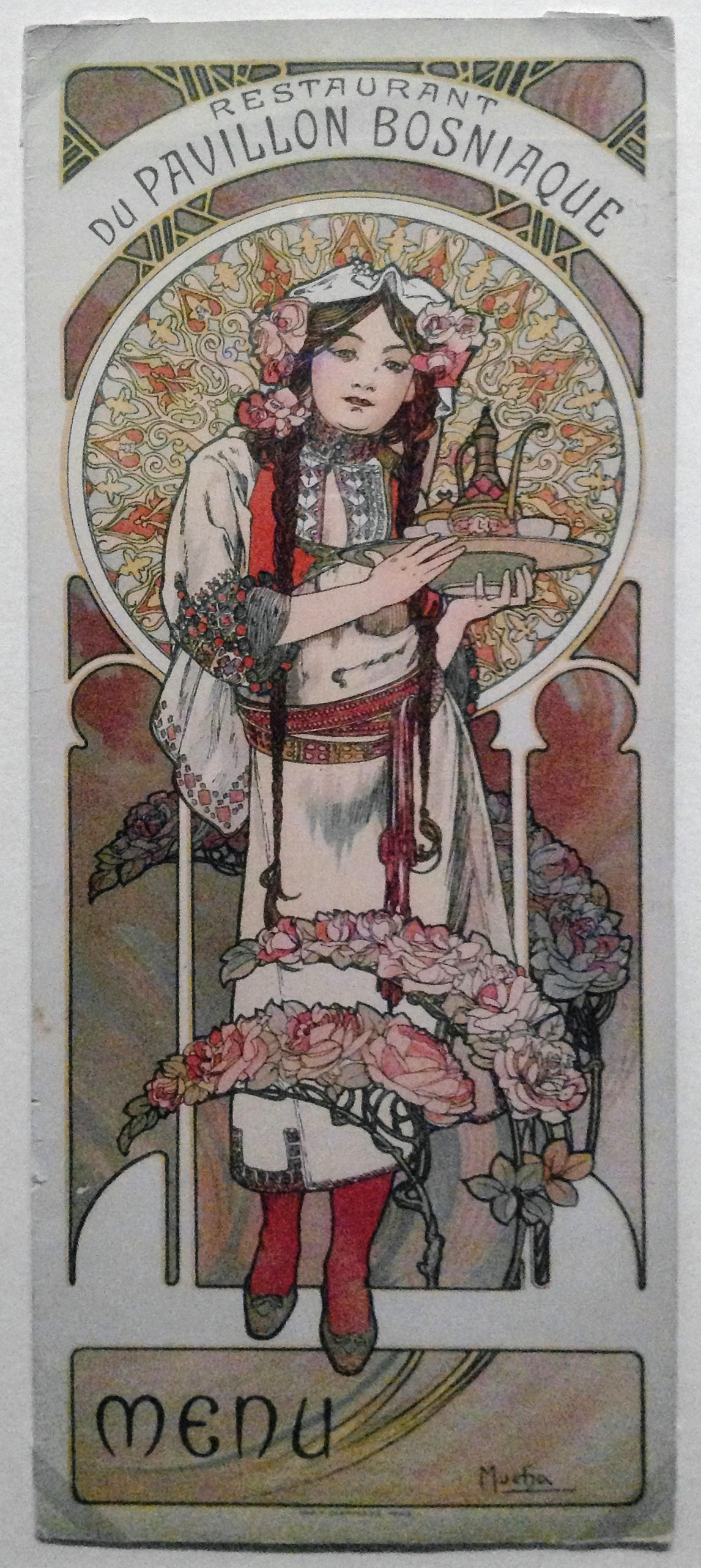 Menu for the restaurant of the Bosnia Pavillion at the Paris International Exposition of 1900 by Alfons Mucha